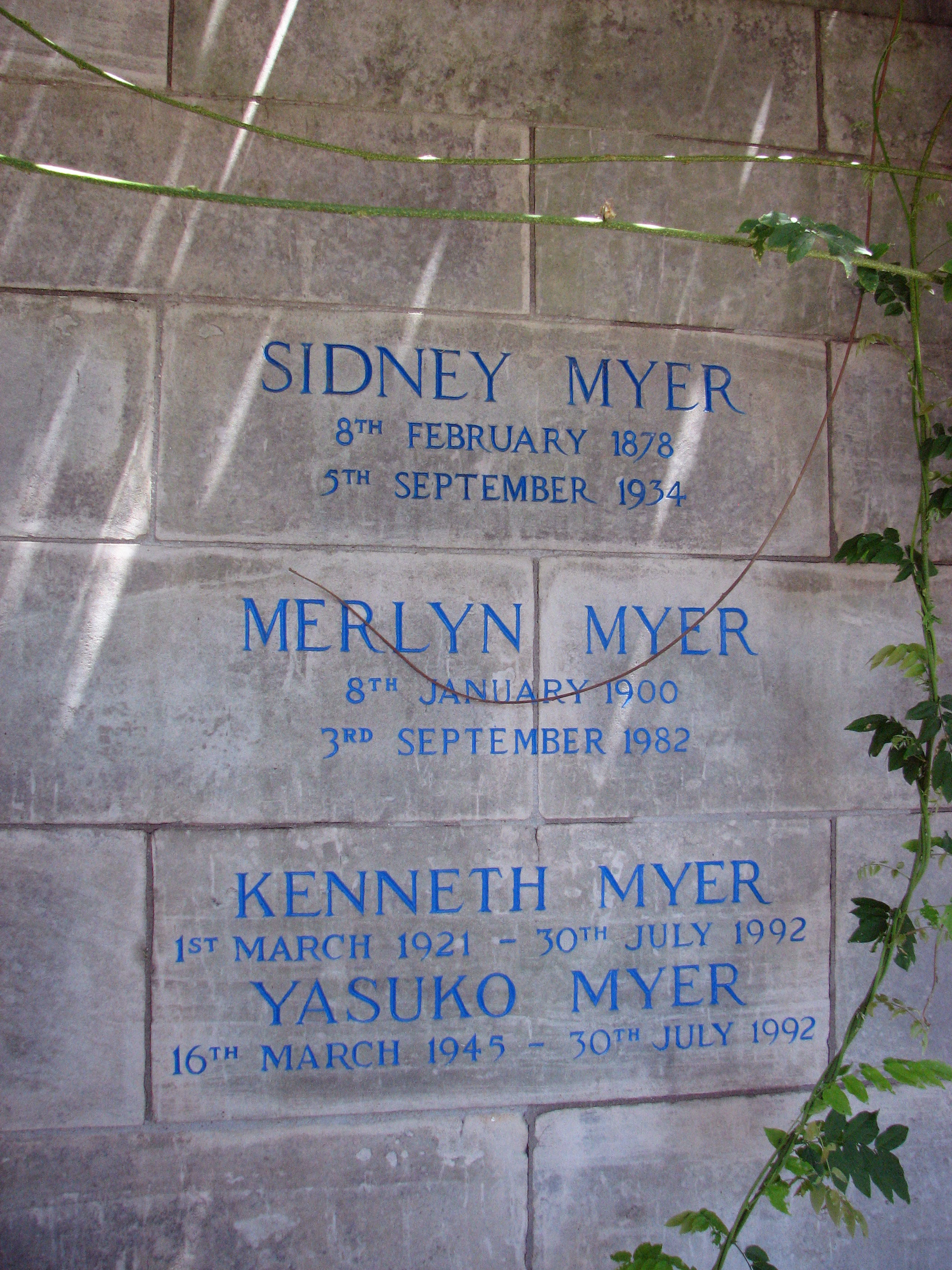 Grave of Sidney Myer, Merlyn (Margery) Myer, Kenneth Myer, and Yasuko Myer. Box Hill Public Cemetery, Box Hill, Melbourne, Victoria, Australia.